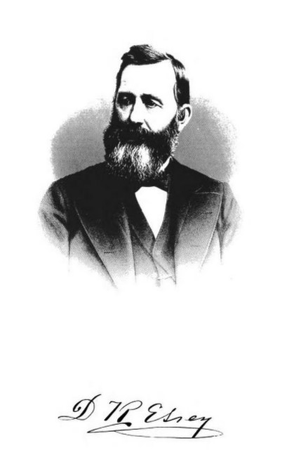 Image of David Reese Esrey from Henry Graham Ashmead's "History of Delaware County, Pennsylvania"